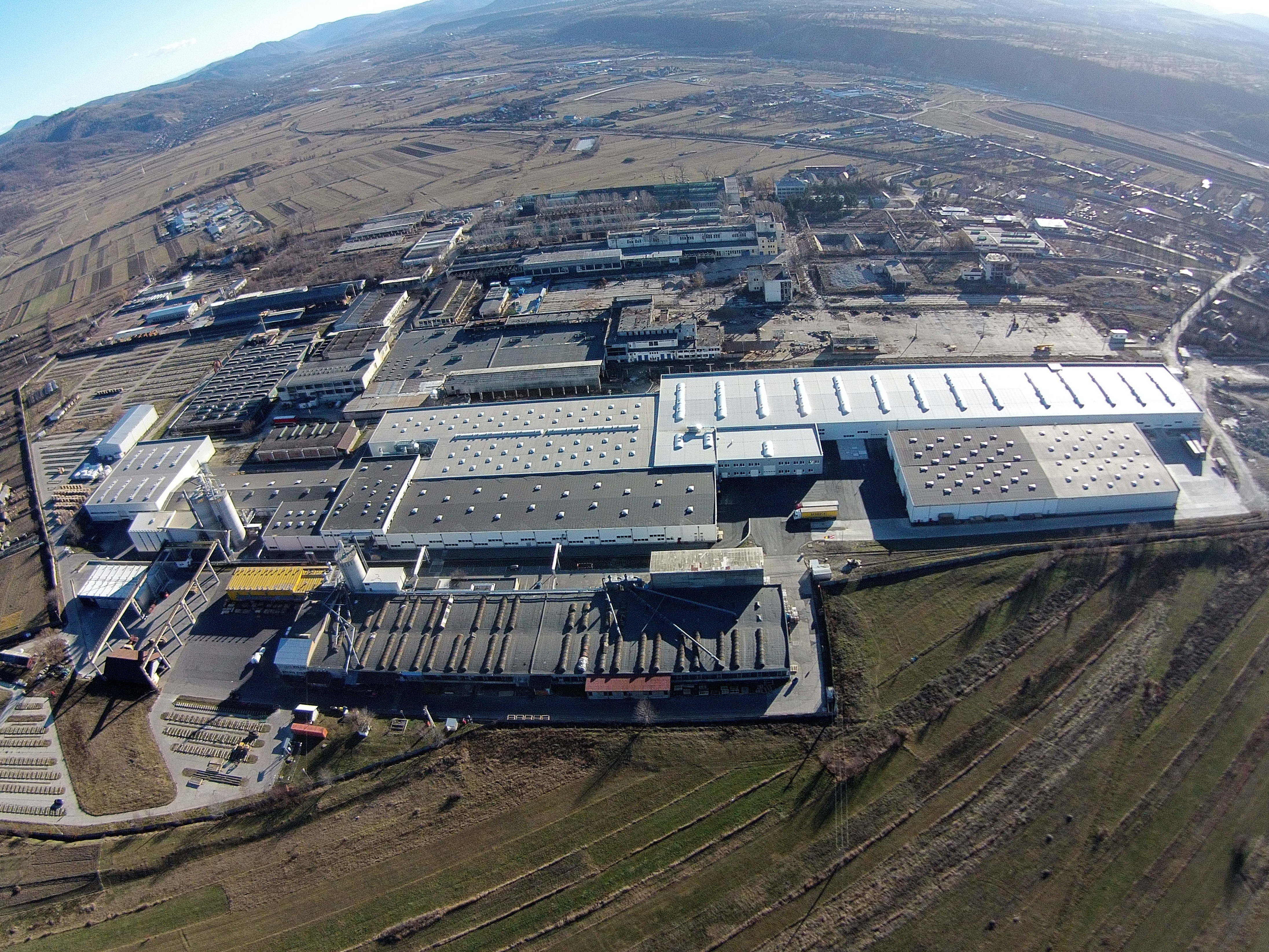 Aerial photo of our Blockboard factory in Comănești, Romania.